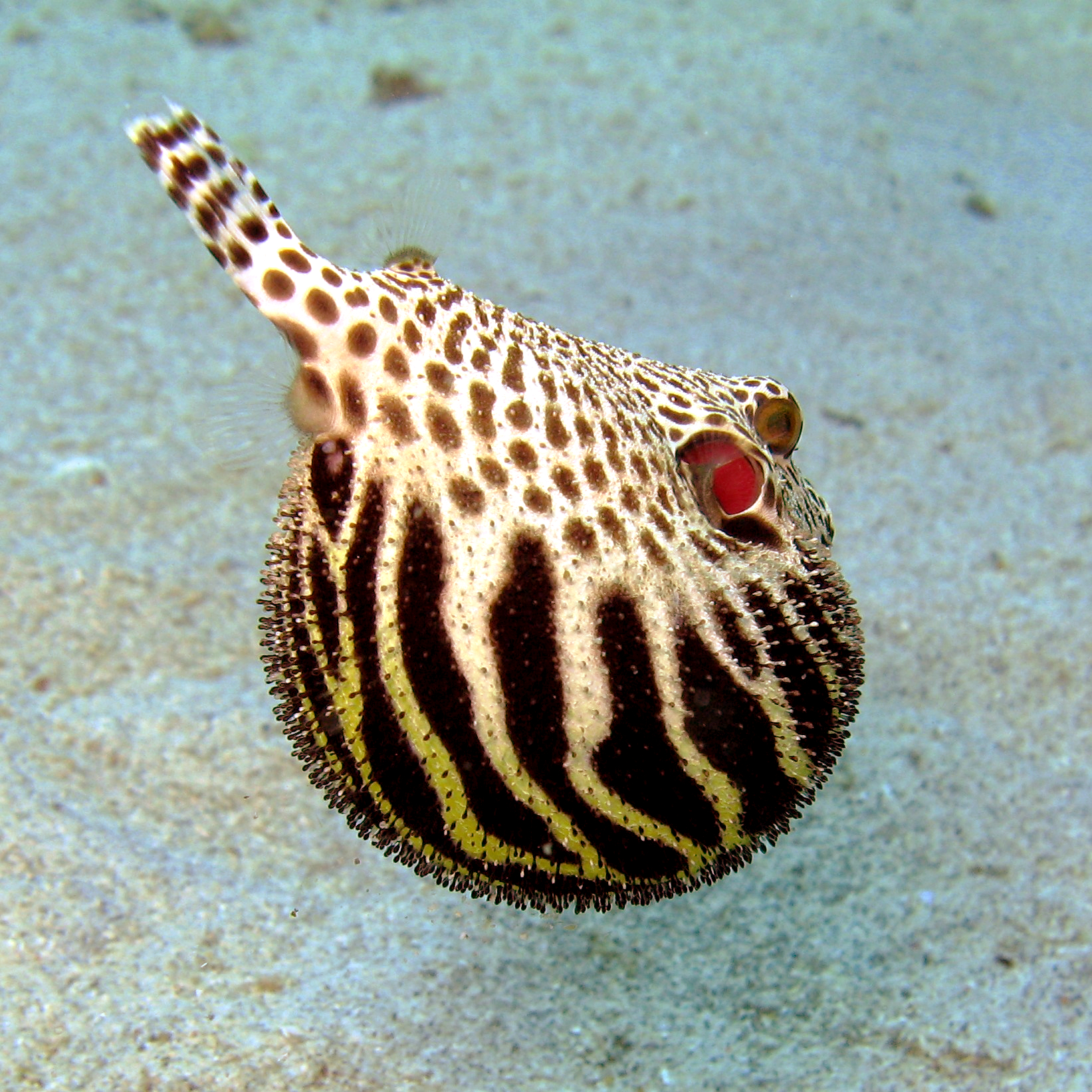 Mactan Cebu, Philippines Arothron stellatus ? ?????????